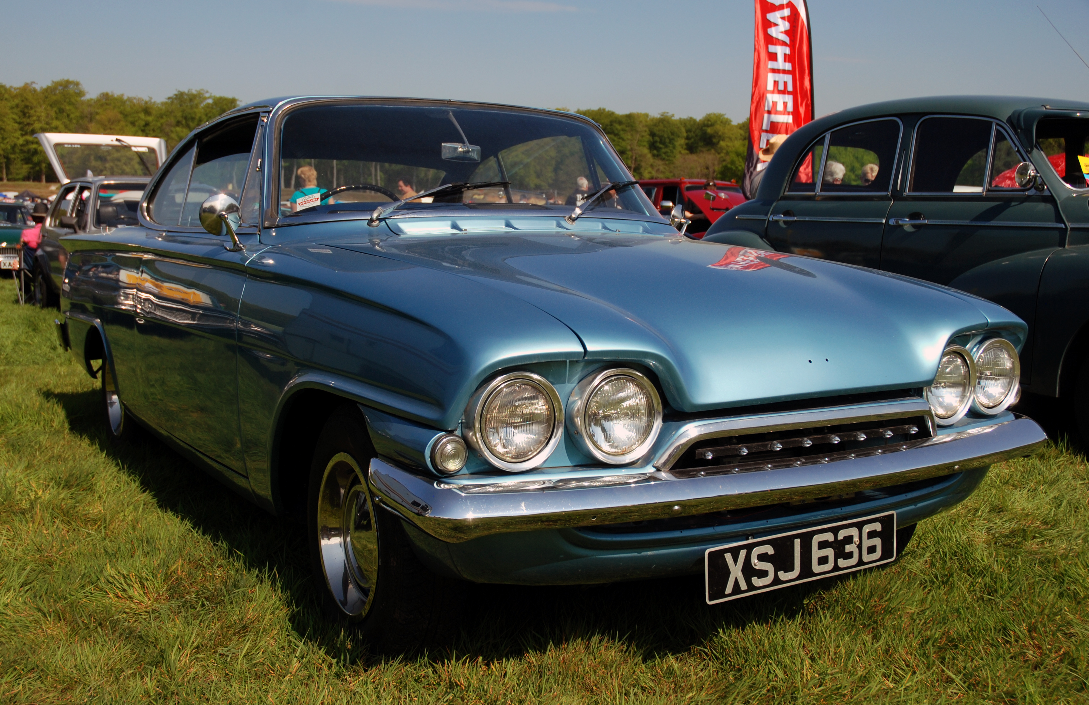 Wheels Day 2011,April 2011